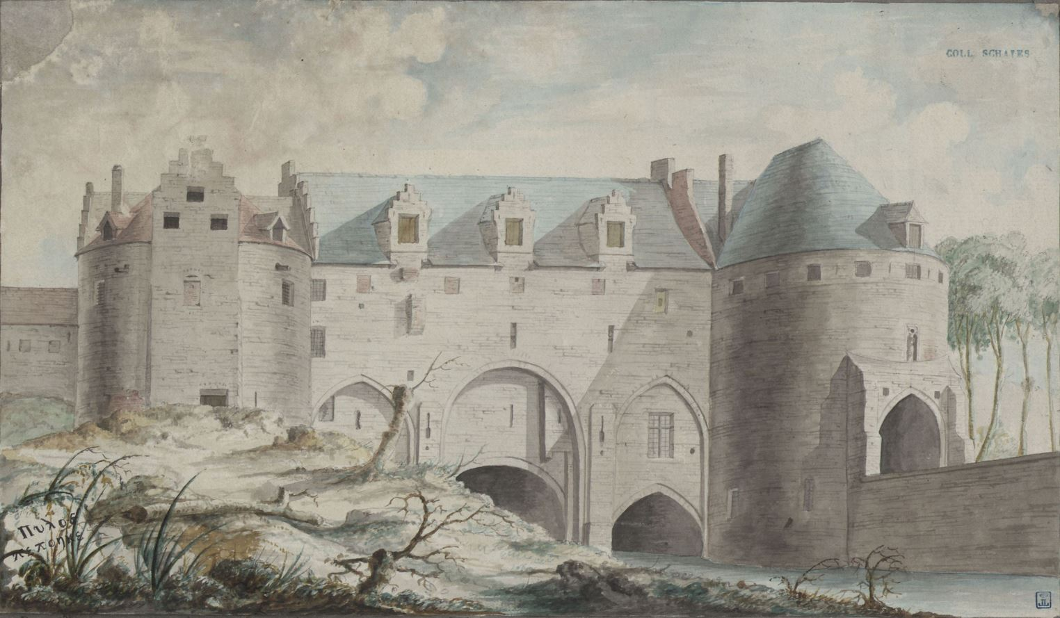 View of the Laeken Gate in Brussels, 1786, 198 x 329 mm